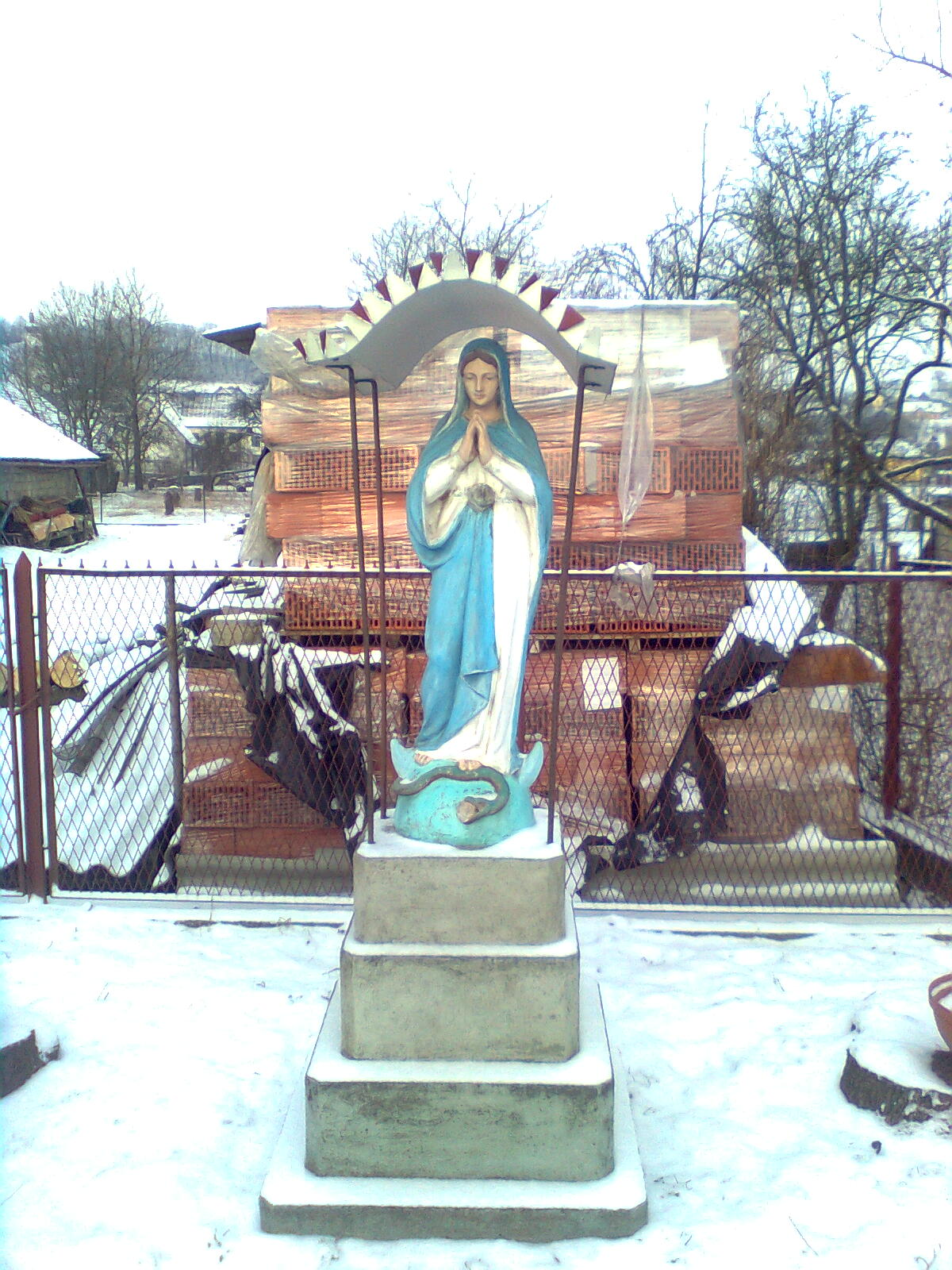 Wayside shrine of Mary (mother of Jesus) in Podegrodzie (Lesser Poland Voivodeship)